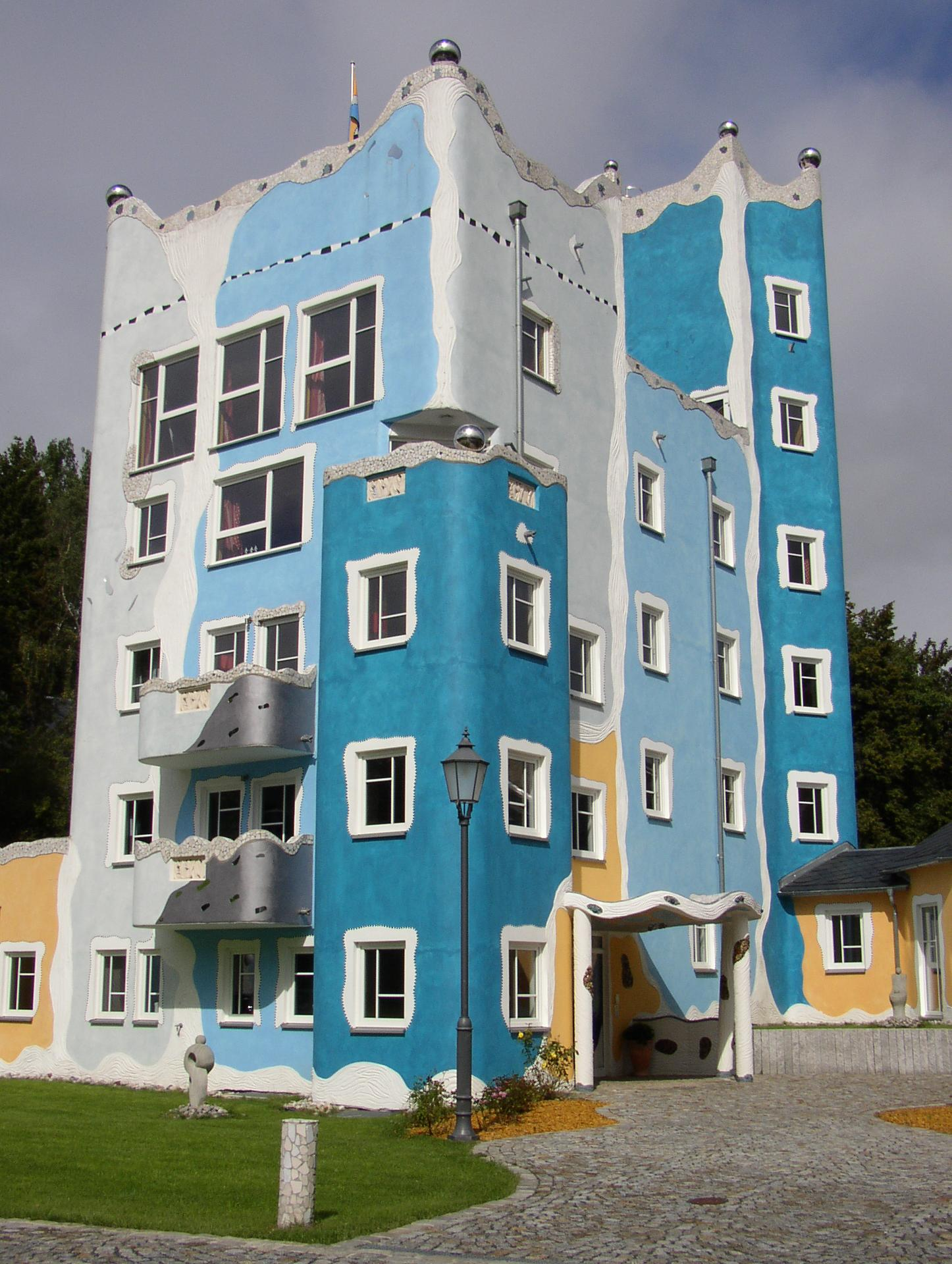 Office building in Selb in Bavaria, Germany